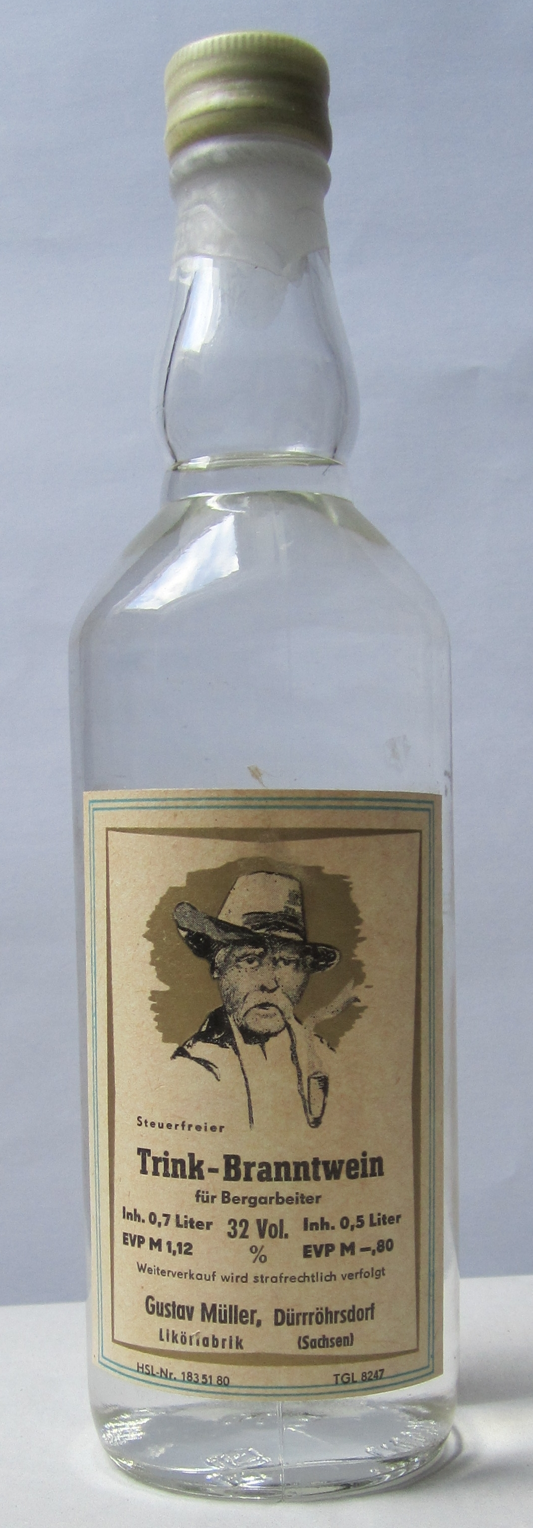 A bottle of tax-free 32% ABV spirit, made from Korn or potatoes and sold exclusively to miners in the GDR. Note the label, which kann be applied to both the 0.7 litre and 0.5 litre bottle. The image shows the later.